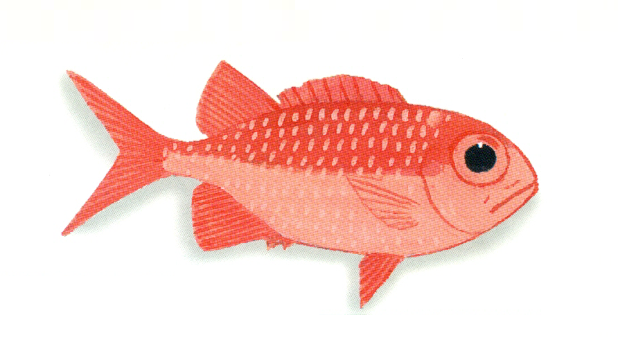 Myripristis_vittatus